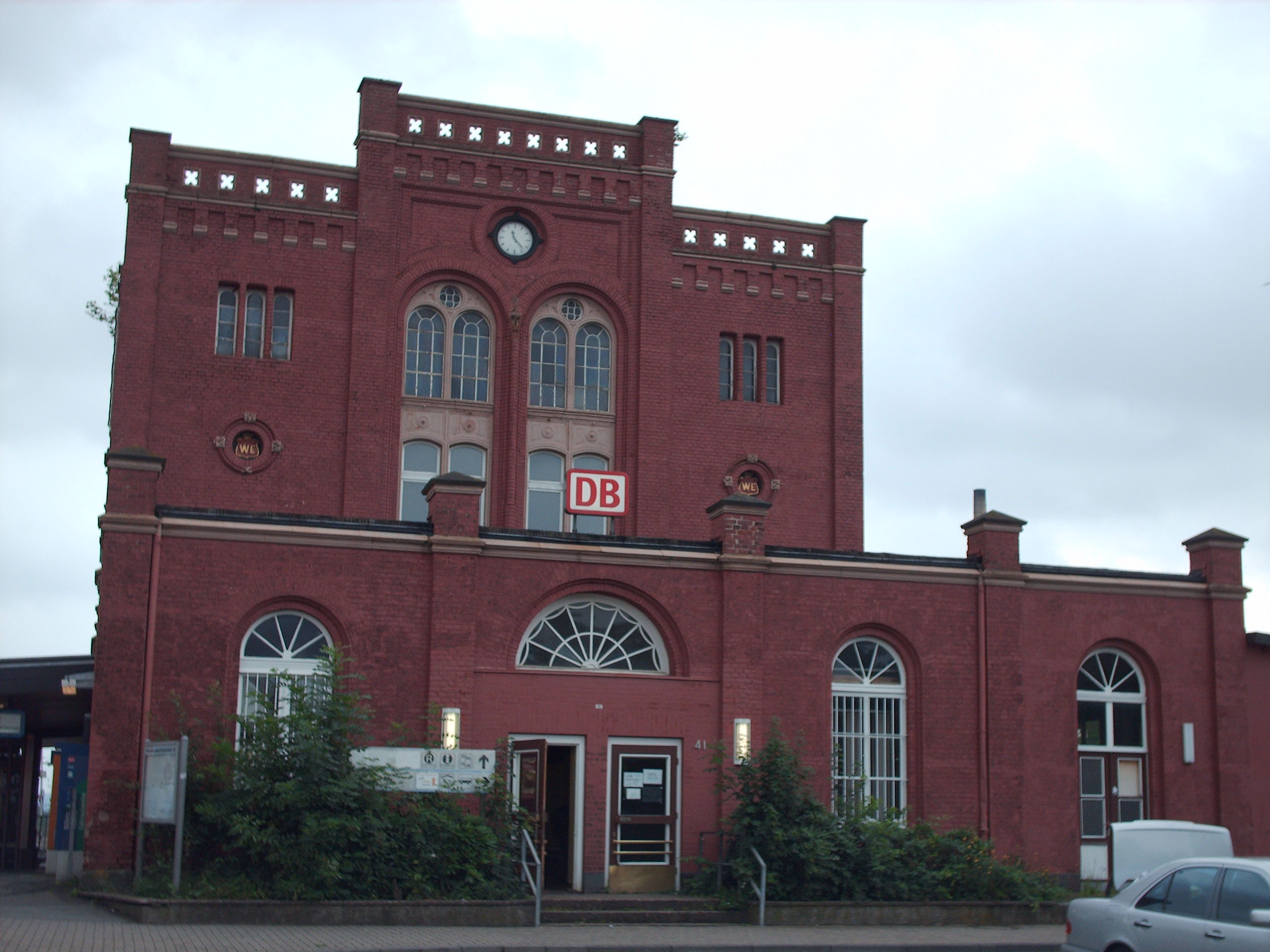 Warburg (Westf) station, Warburg, Germany check usage